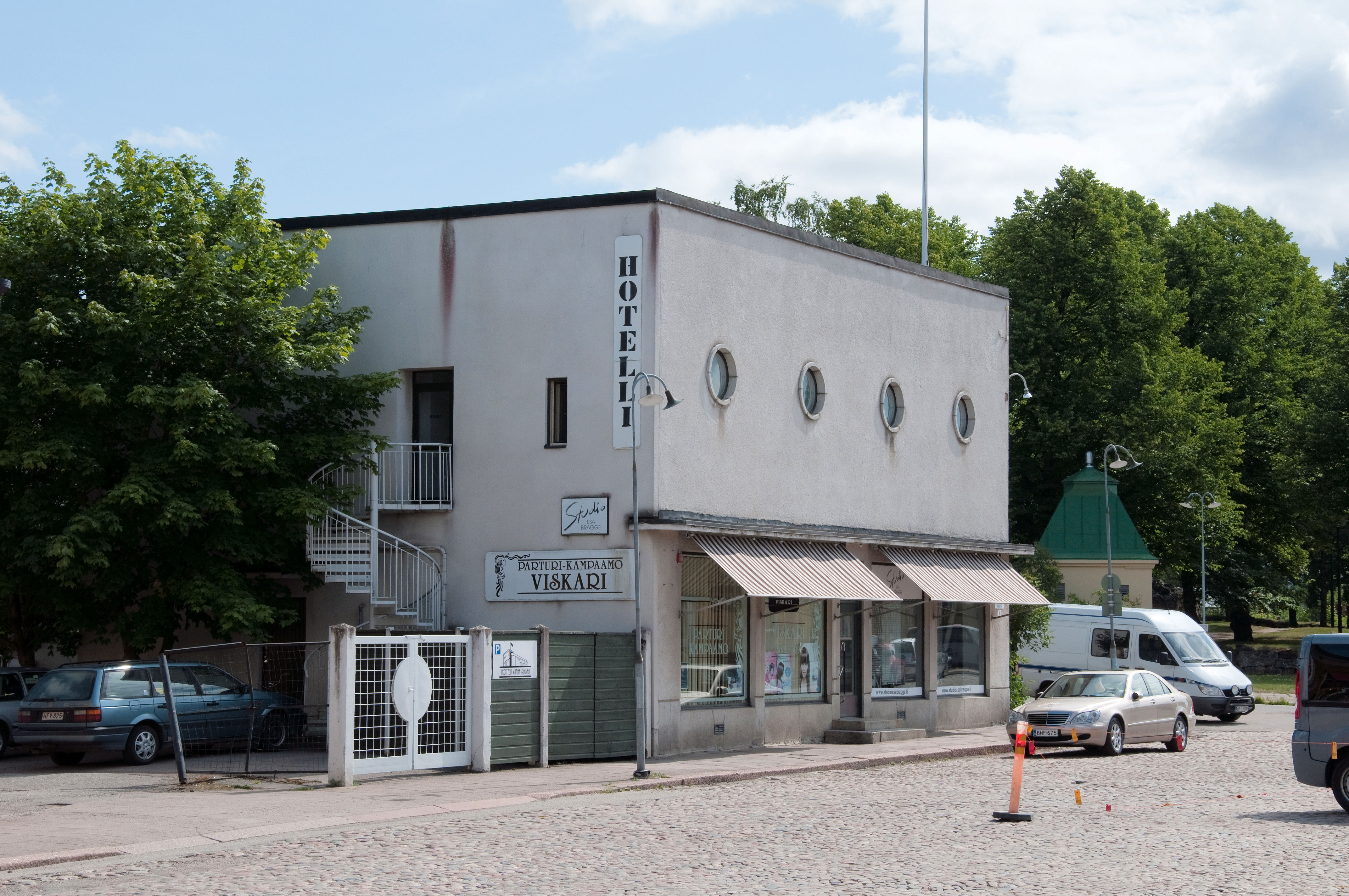 Street in old Rauma